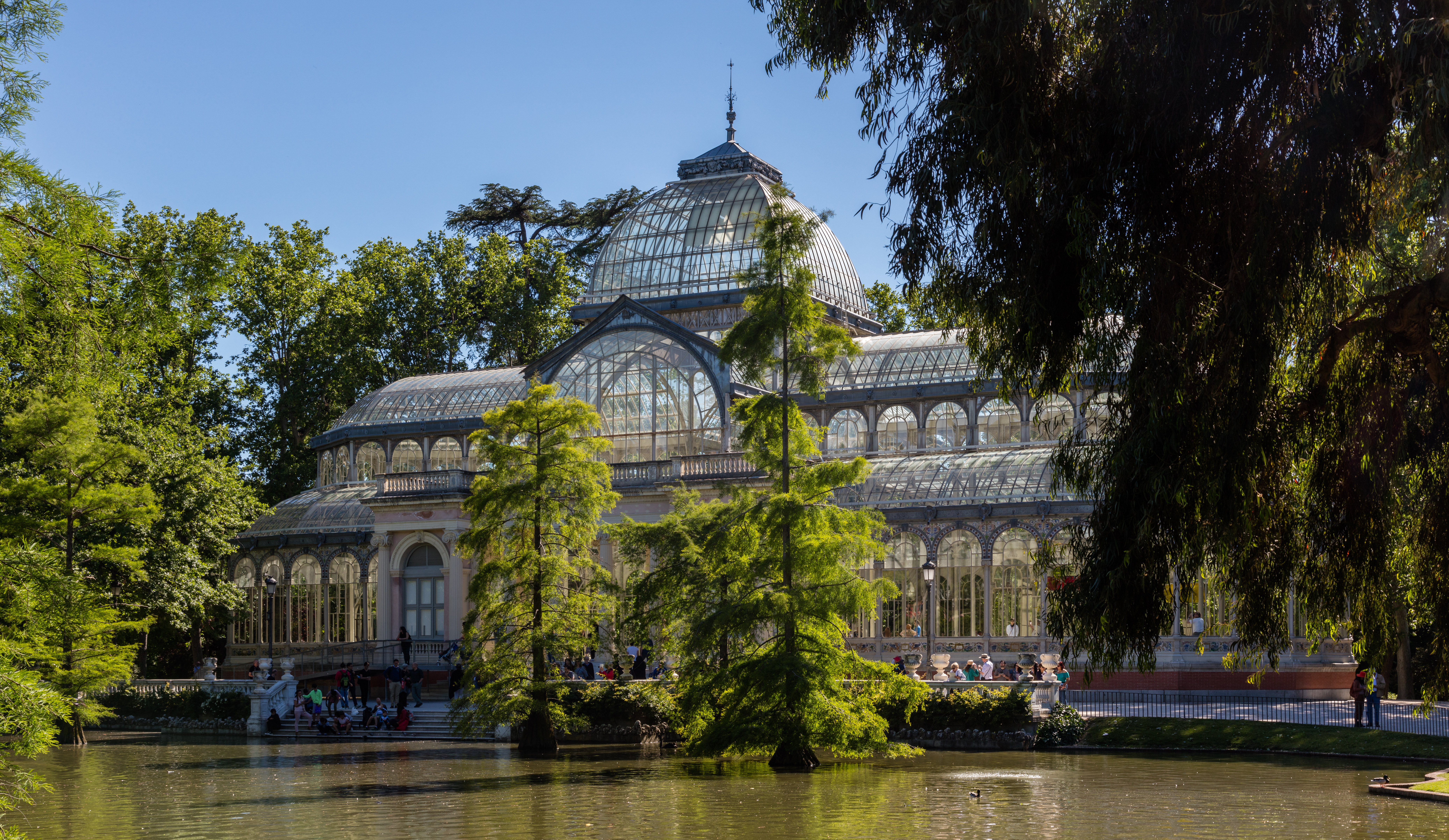 Crystal Palace, Retiro park, Madrid, Spain